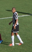 Brazilian footballer Leonardo Silva in 2012.